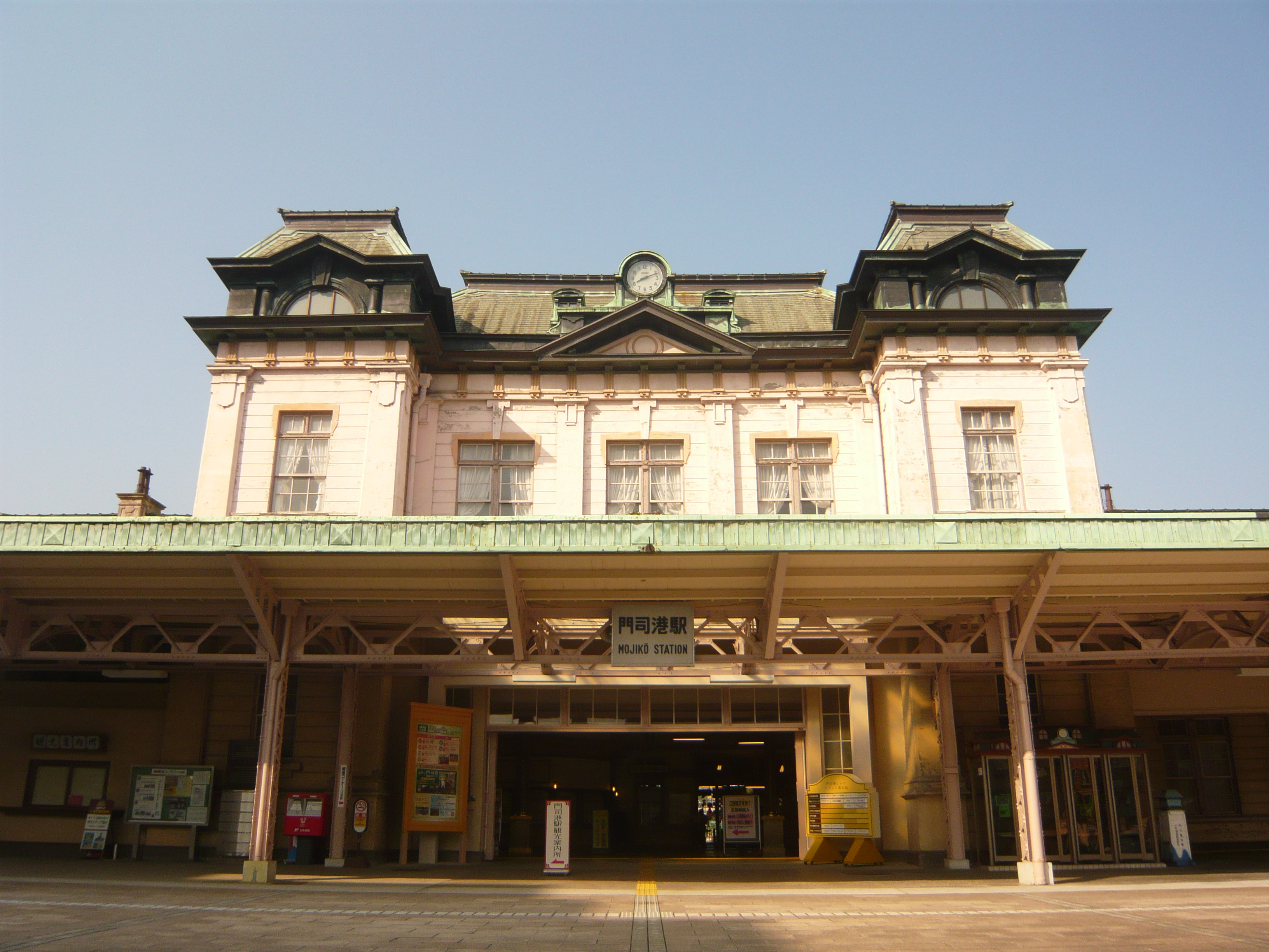 Mojikō Station, Kitakyushu, Fukuoka, Japan